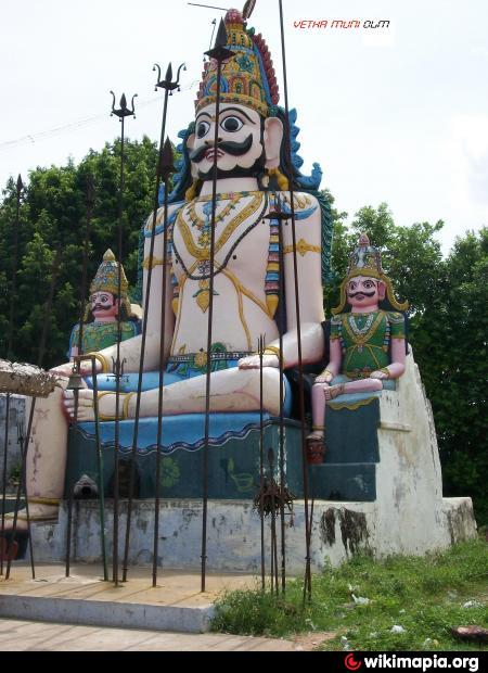 Yearly festival happens in the month of may